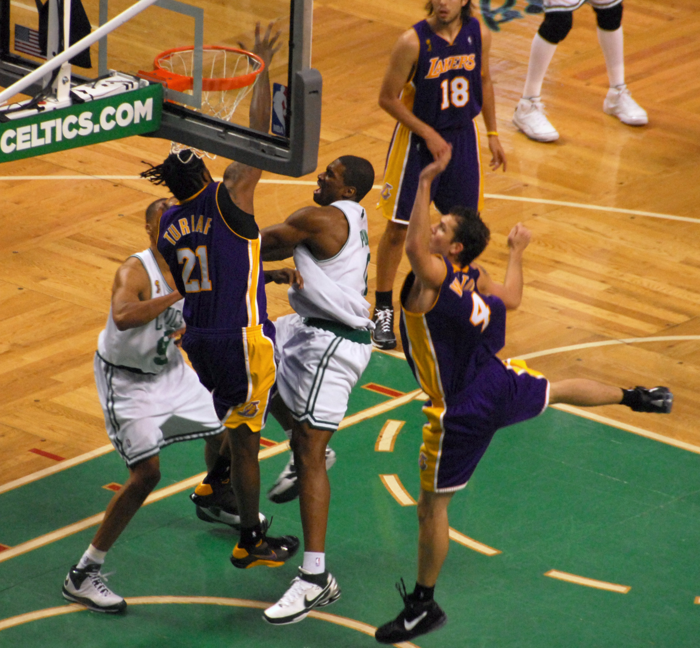 Powe runs into traffic